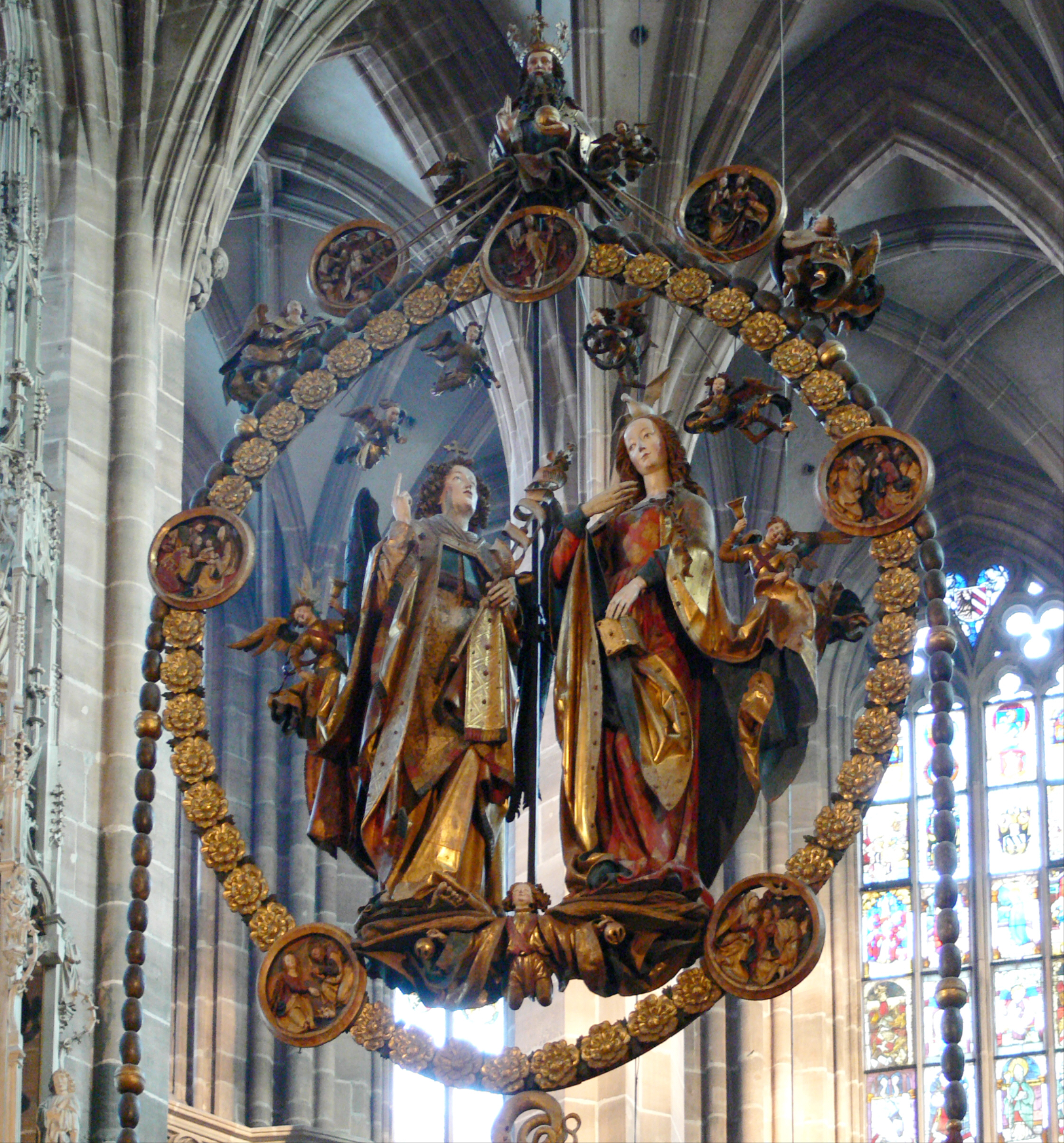 The Annunciation (1517-1518) by Veit Stoss in Lorenzkirche, Nuremberg, Germany